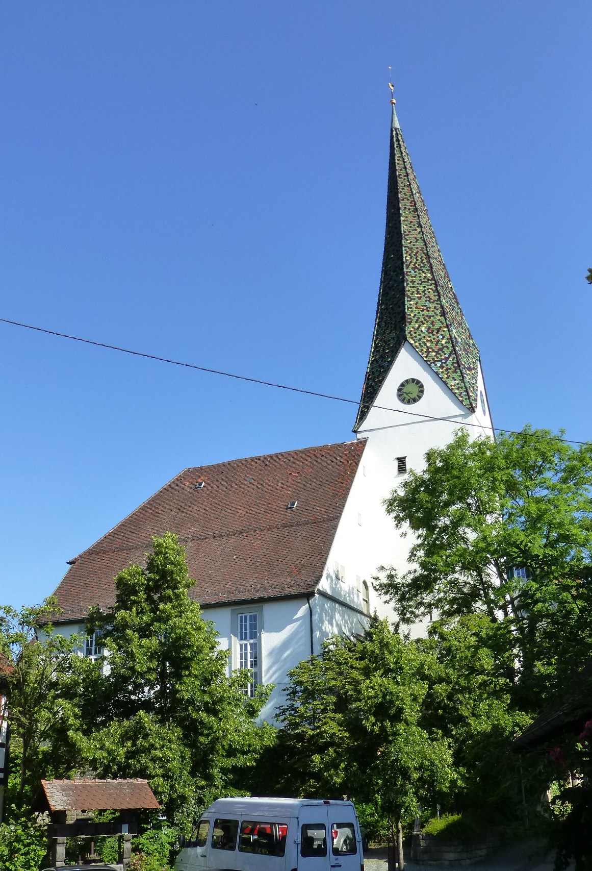 Weissach im Tal Church, Evangelische Pfarrkirche St. Agatha, Baden-Wurtemberg, Germany.